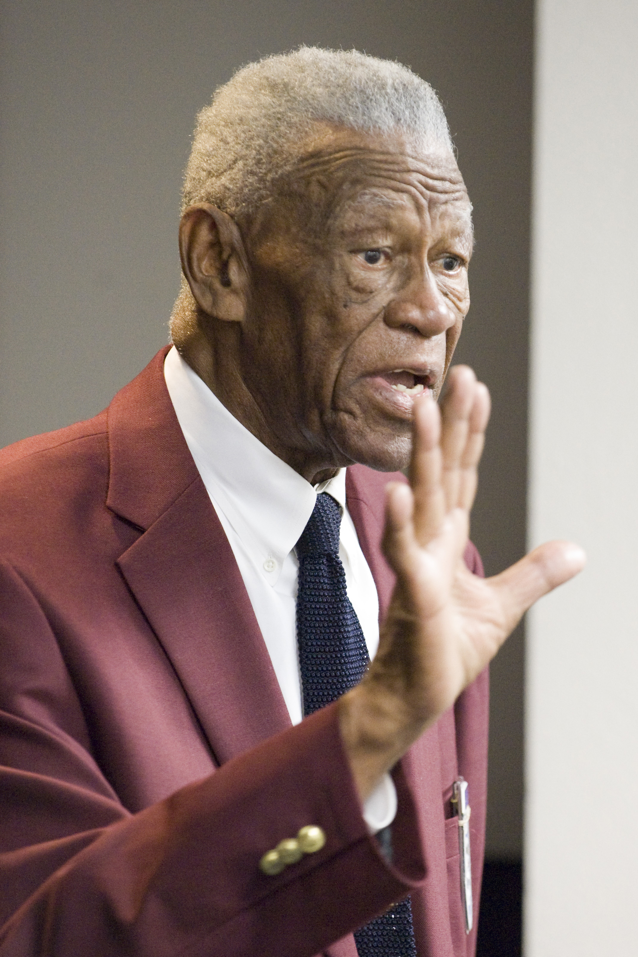 "Tuskegee Airman and Negro American League baseball star John "Mule" Miles tells the story of his at-bat against the great Satchel Paige, which ended after the second strike because, he told his manager, he couldn't see Satchel's blazing pitches. Mr. Miles was a guest speaker at the second annual Tuskegee Heritage Breakfast at the 99th Flying Training Squadron, Randolph Air Force Base, Texas, Feb. 8, 2010. (U.S. Air Force photo by Steve Thurow/Released)"